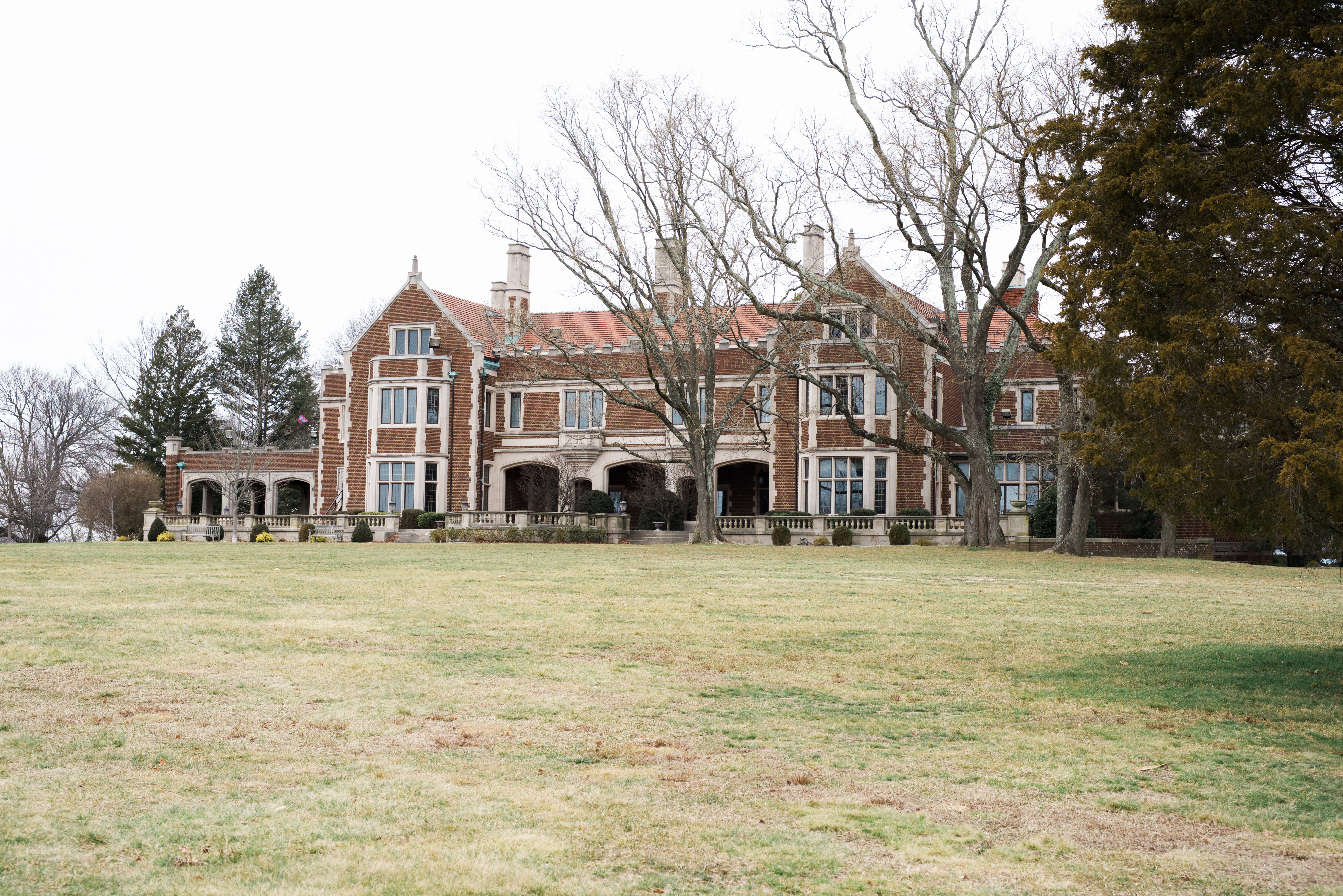 Waveny Mansion in New Canaan.